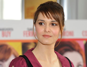 Paola Cortellesi